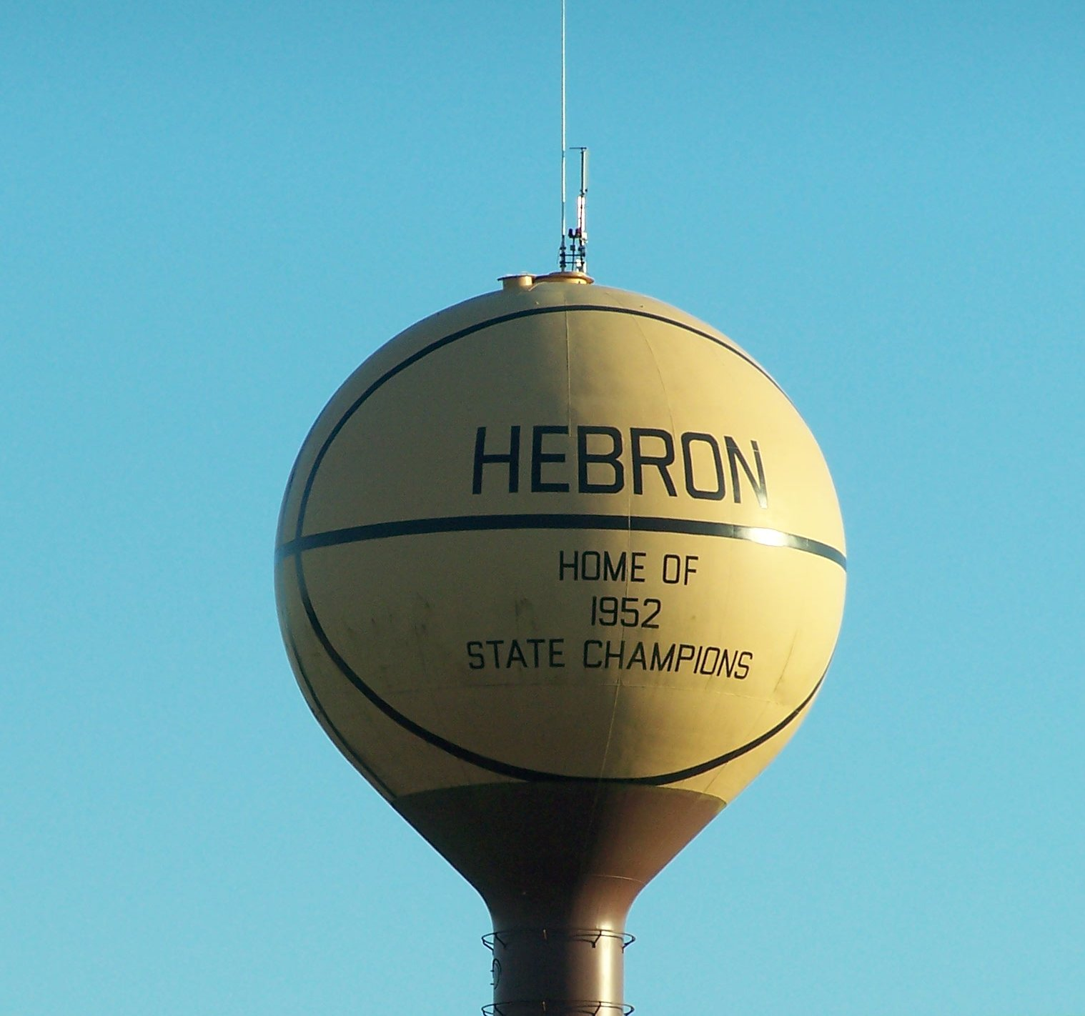 Closeup of the Hebron, Illinois water tower.